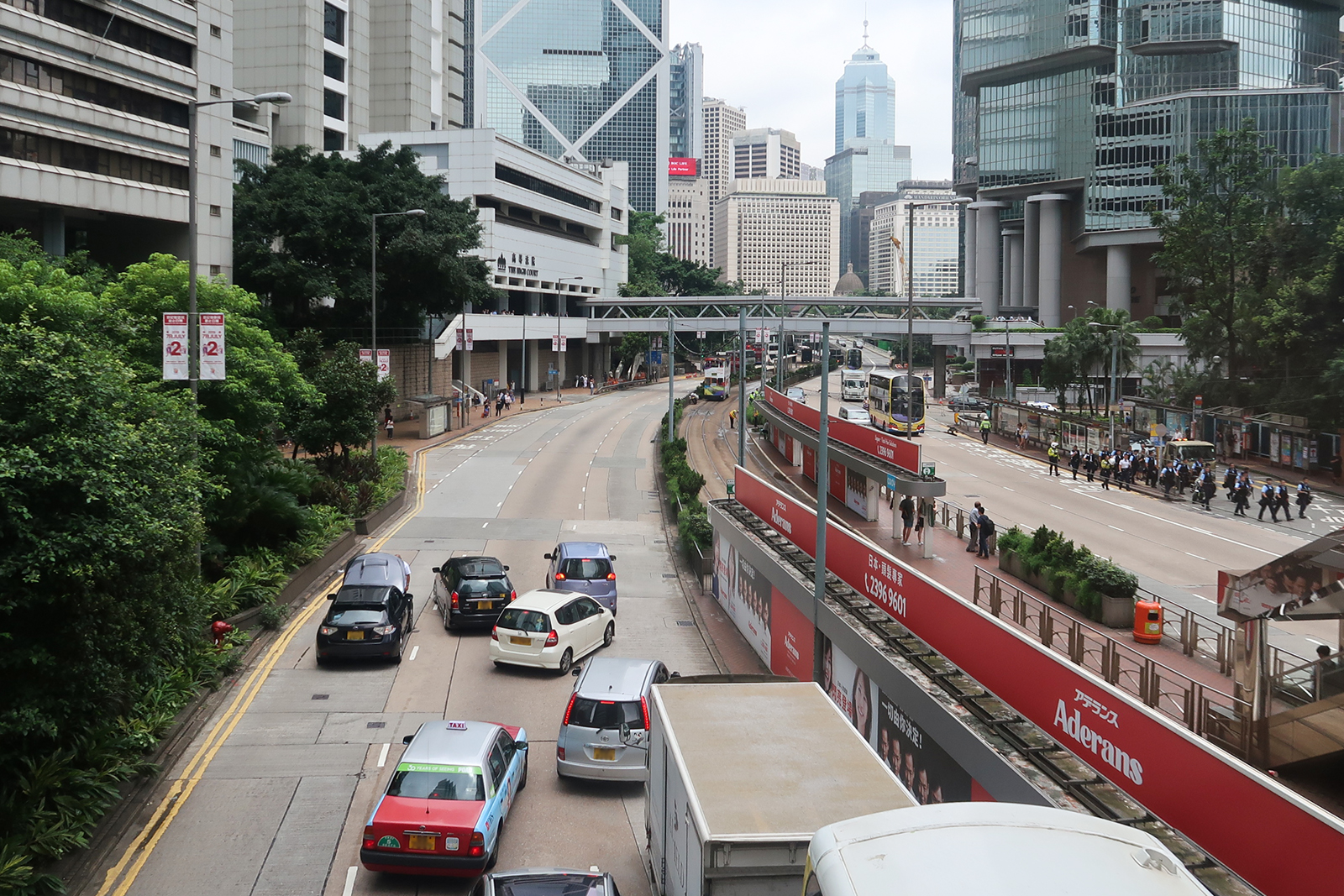 Queensway Vehicle stopped